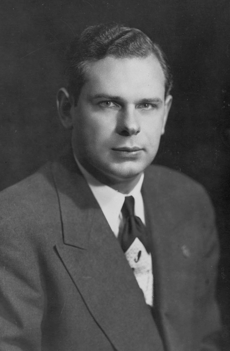 Paul Hellyer in the 1940s